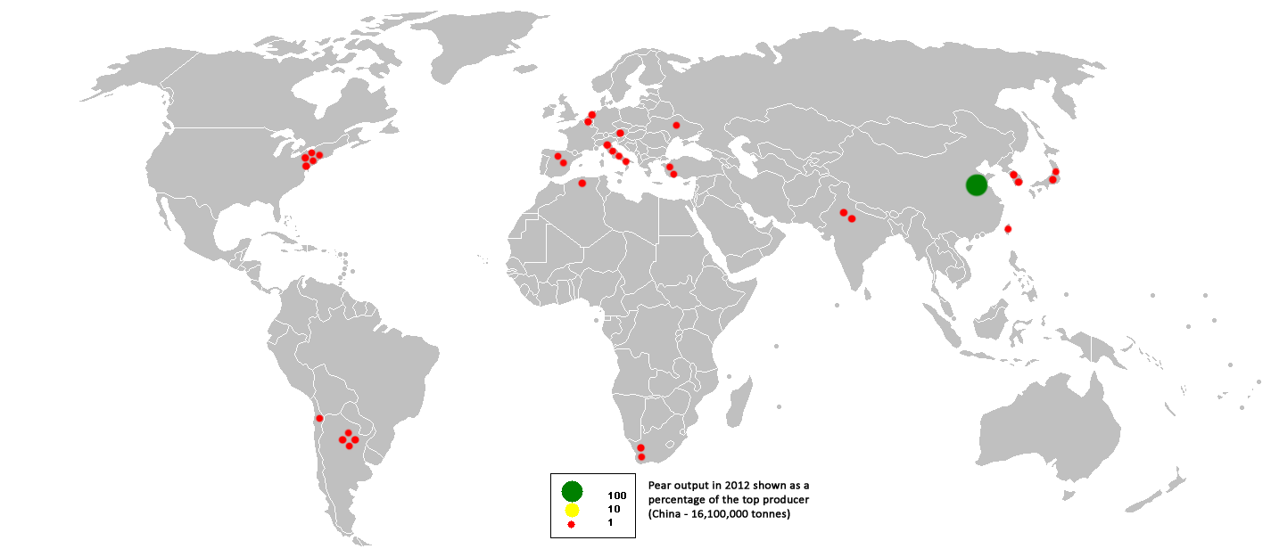 This bubble map shows the global distribution of pear output in 2012 as a percentage of the top producer (China - 16,100,000 tonnes). This map is consistent with incomplete set of data too as long as the top producer is known. It resolves the accessibility issues faced by colour-coded maps that may not be properly rendered in old computer screens. Data was extracted on 27th February 2015 from FAO.